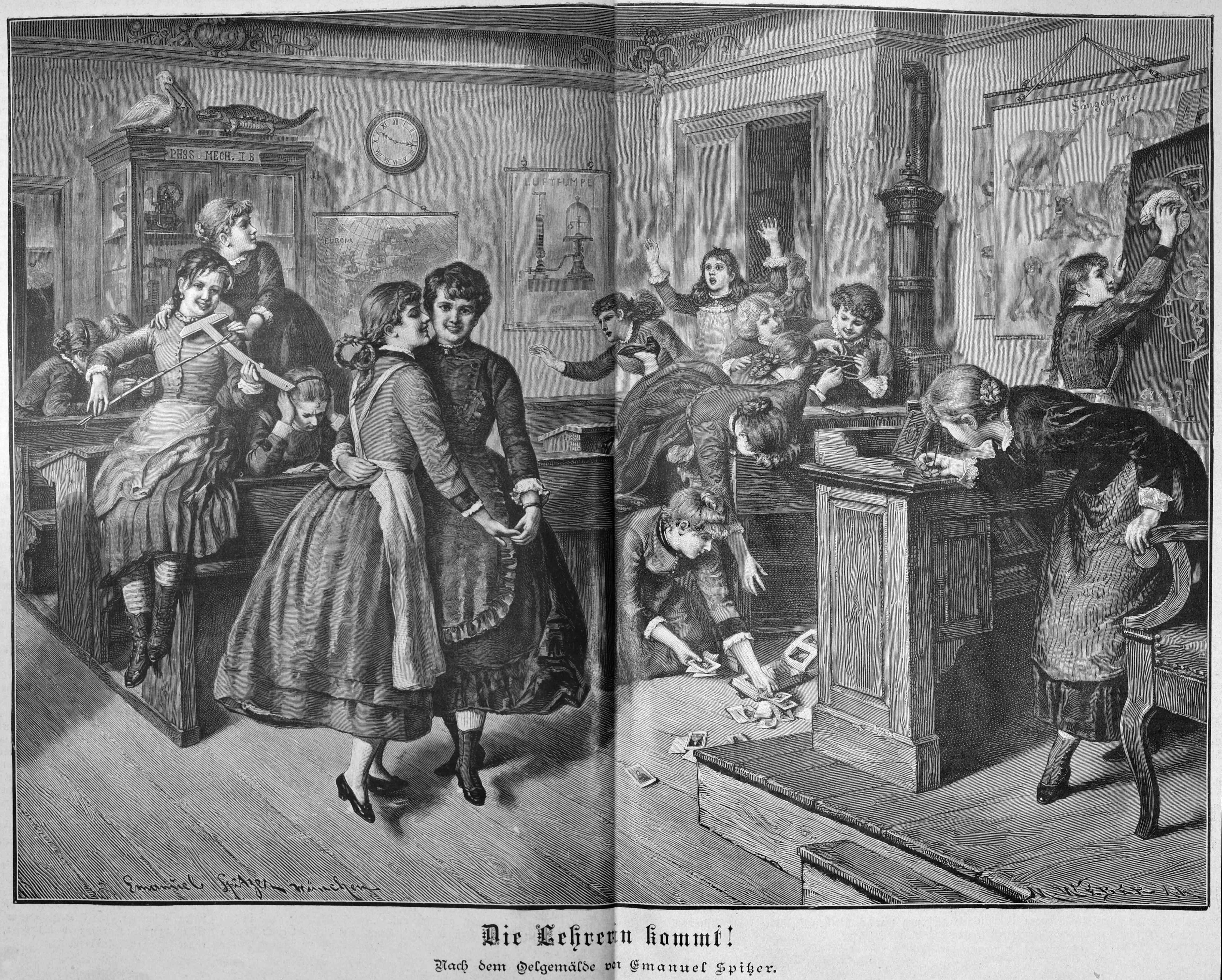 caption: " Die Lehrerin kommt! Nach dem Oelgemälde von Emanuel Spitzer. "